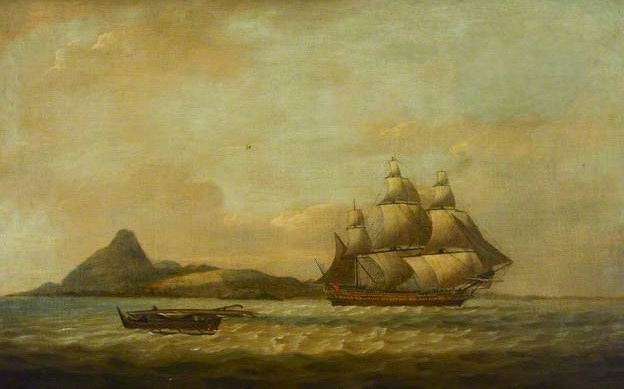 Oil on canvas, 55.9 x 86.4 cm